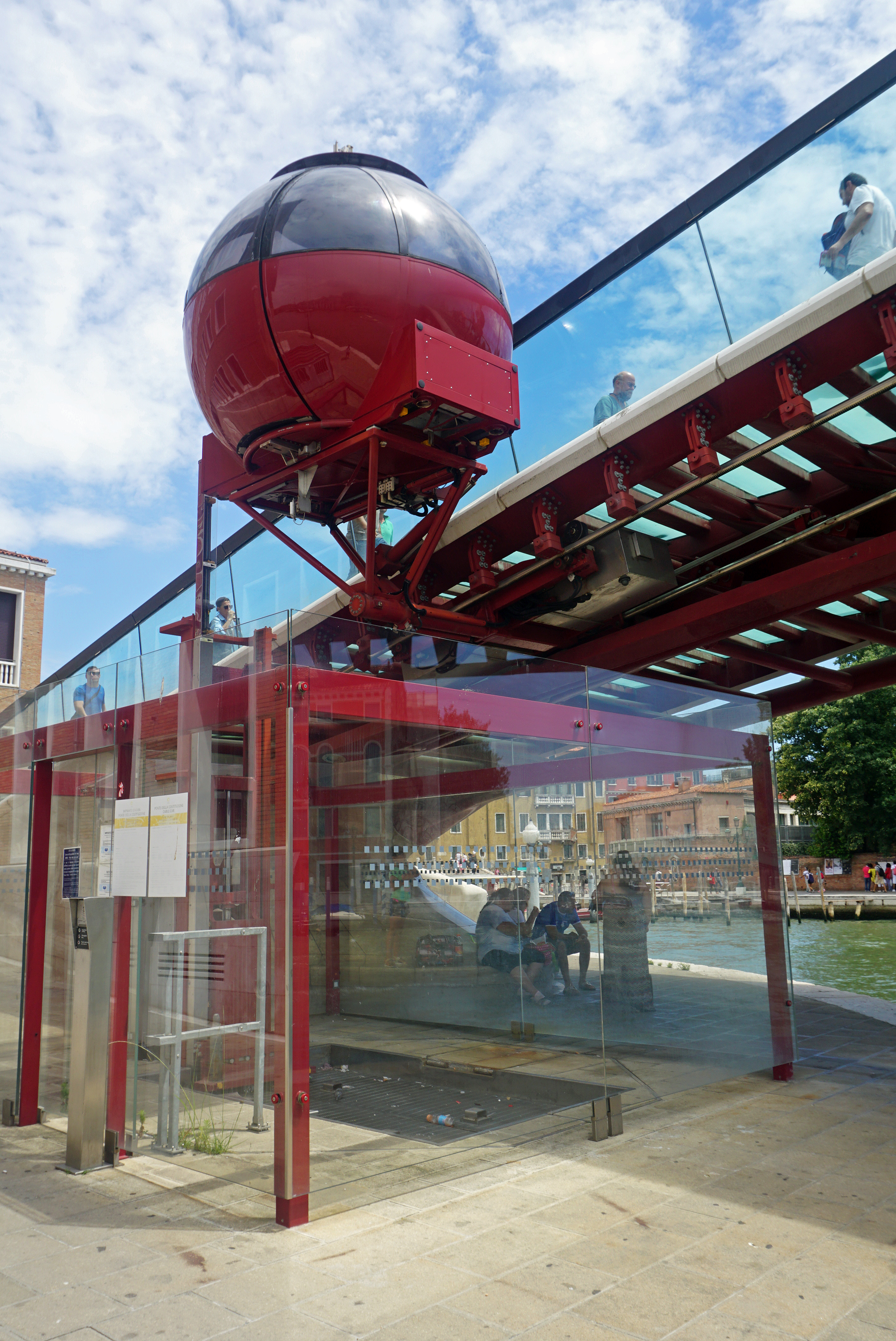 "Egg" shaped wheelchair elevator for crossing the Grand Canal along the Calatrava bridge, Venice, Italy.